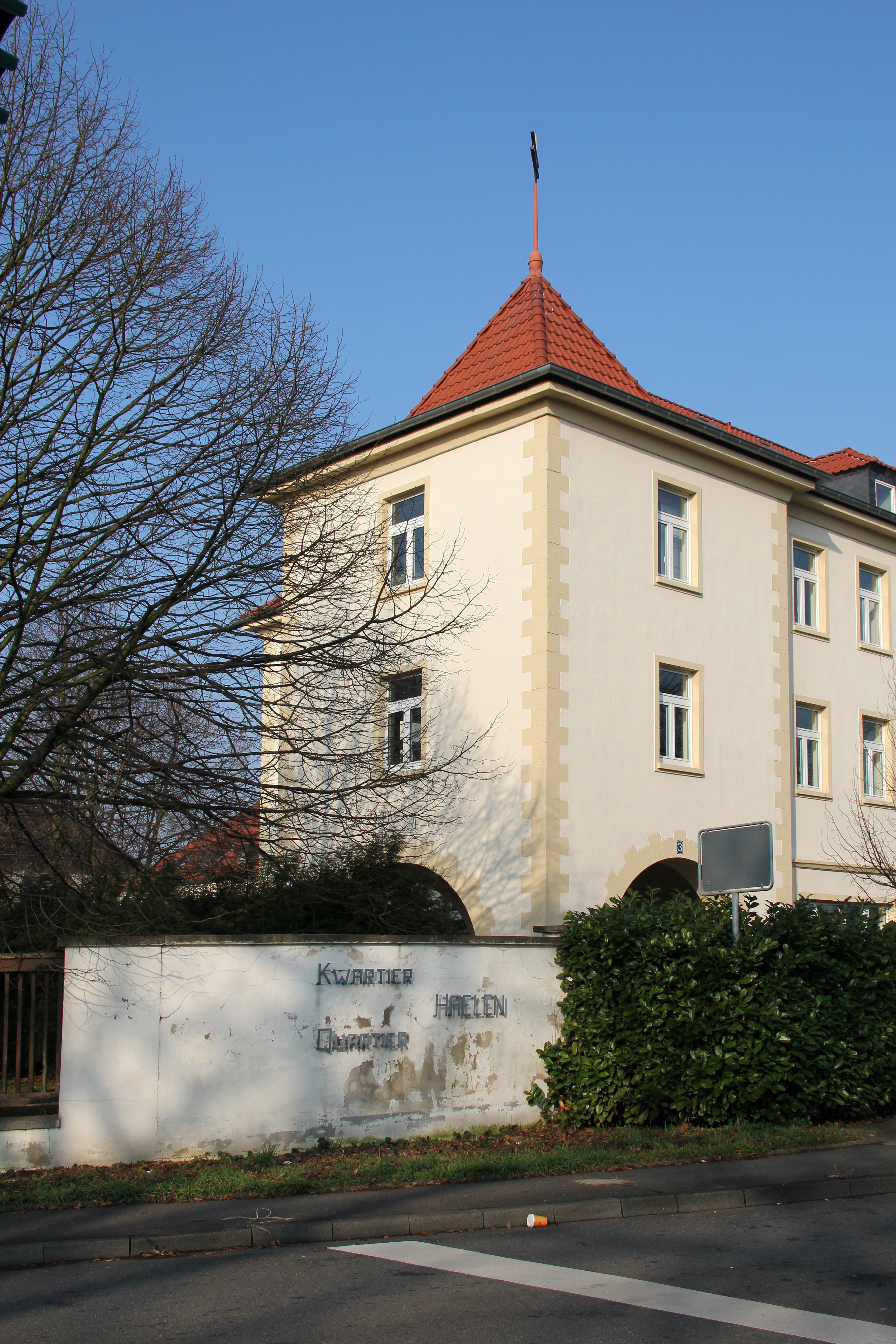 Former belgian military base Haelen, Cologne